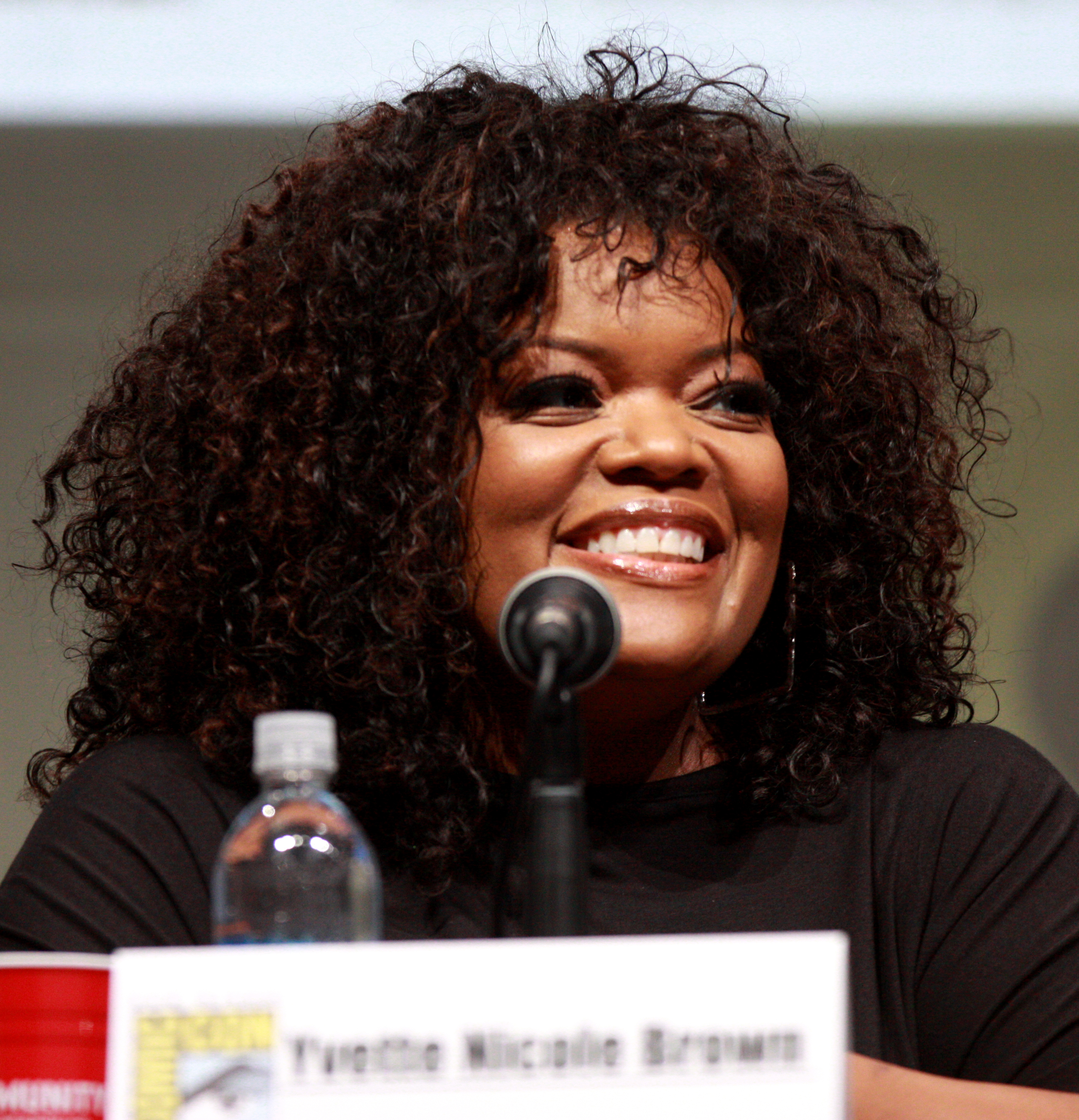 Yvette Nicole Brown at the 2013 San Diego Comic Con International in San Diego, California.